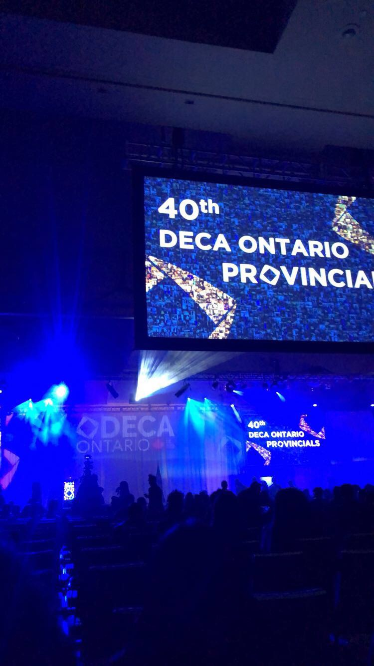 An image of the 40th DECA Ontario Provincials Awards Ceremony prior to commencement on February 9th, 2019 at the Sheraton Centre in Toronto, Ontario